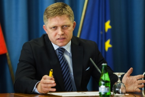 Slovak Prime Minister Robert Fico